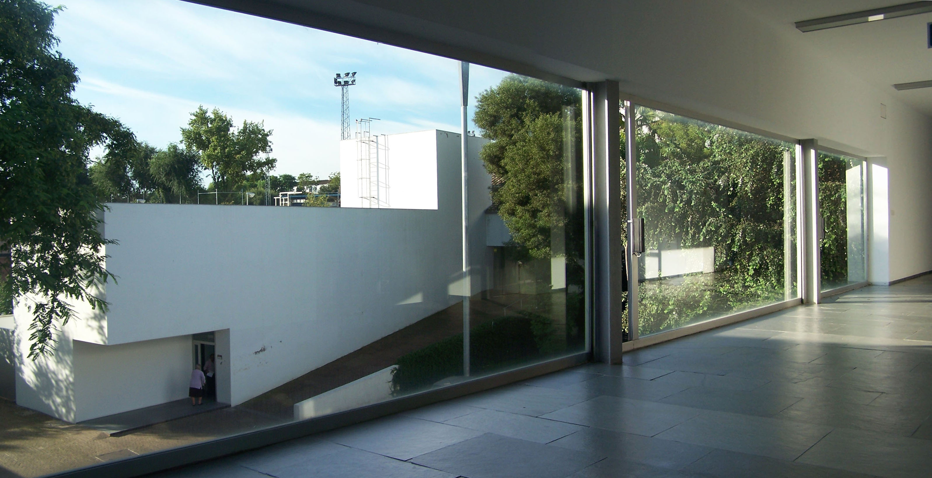 Ayuntamiento de Tomares